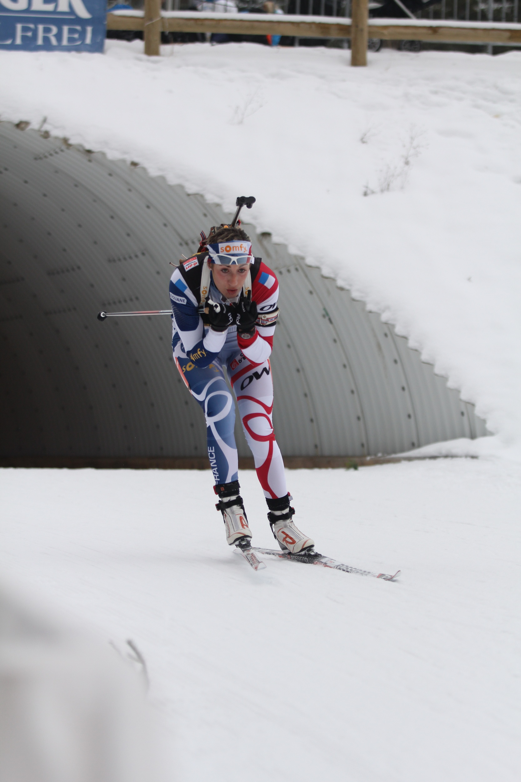 Marie-Laure Brunet at Biathlon World Championchip 2013 in Nove Mesto na Morave